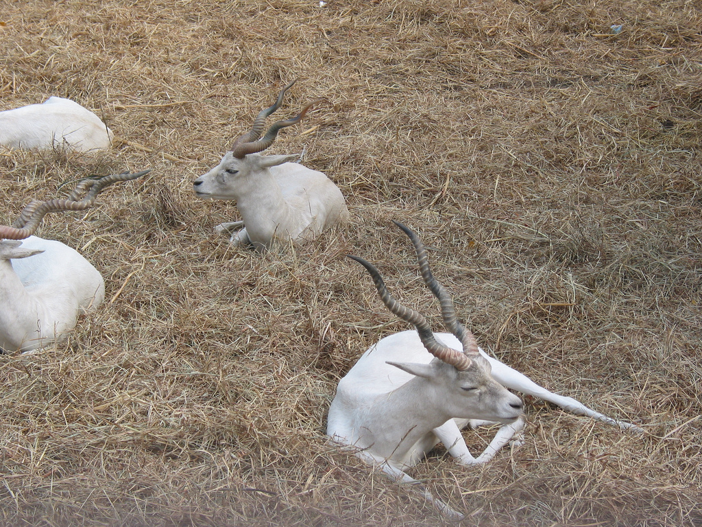 a viriety of antilope from sayji baug zoo. Animals in the Sayaji Baug Zoo. The zoo is situated on both the banks of the Vishwamitri river, in Sayajibaug. The zoo was opened as part of the original park in 1879. The zoo offers 167 types of 1103 animals of various sizes and shapes. Asiatic lions are the most popular of the attractions.